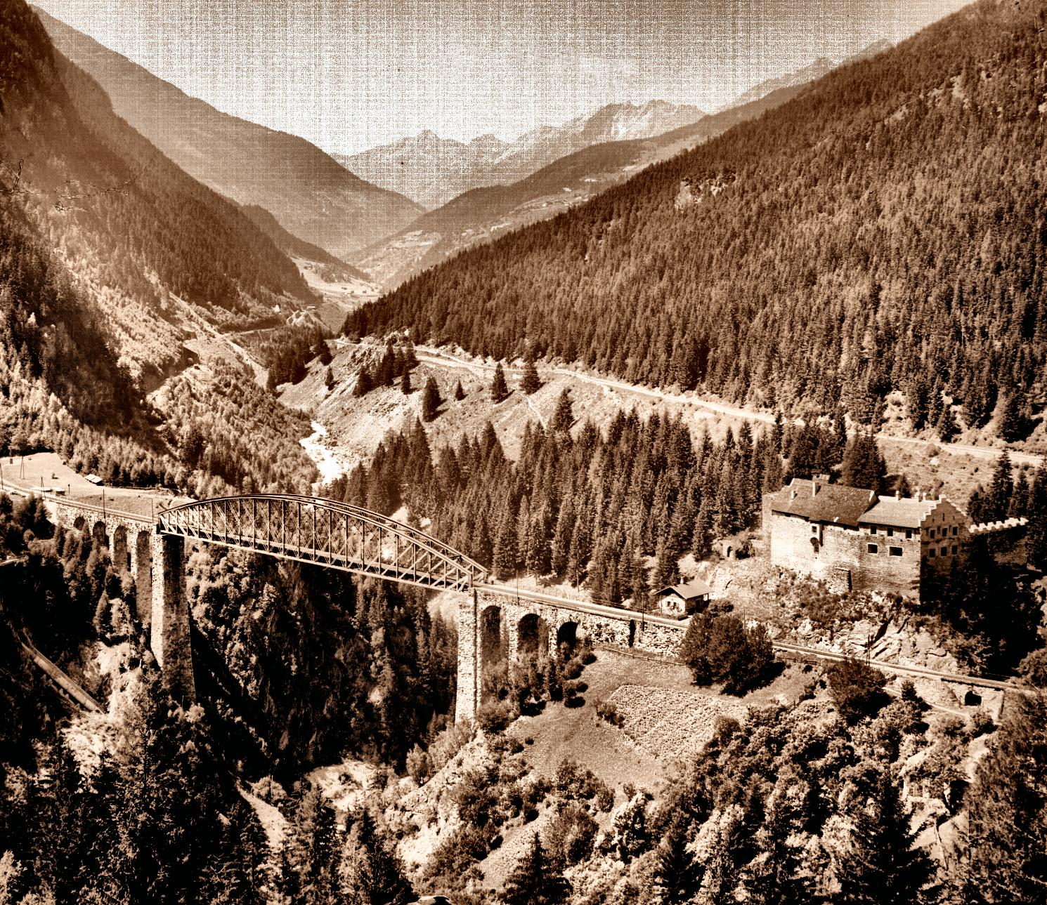 Trisannabridge before 1923 (right: Castle Wiesberg without its tower)